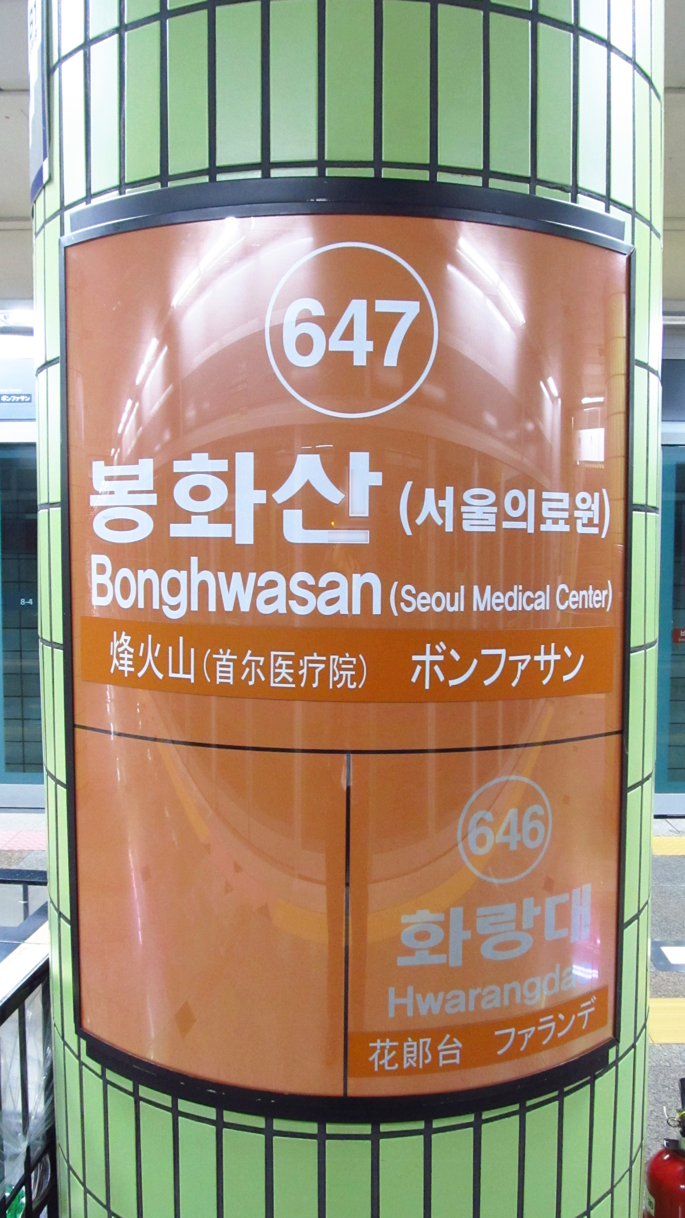 A sign of Bonghwasan Station on Seoul Subway Line 6